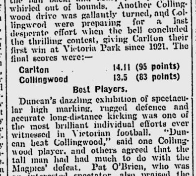 Part of a press report of the extraordinary performance of Carlton Fooballer Alex Duncan in the match between the Carlton and Collingwood Football Clubs at Victoria Park on Saturday, 25 June 1927.